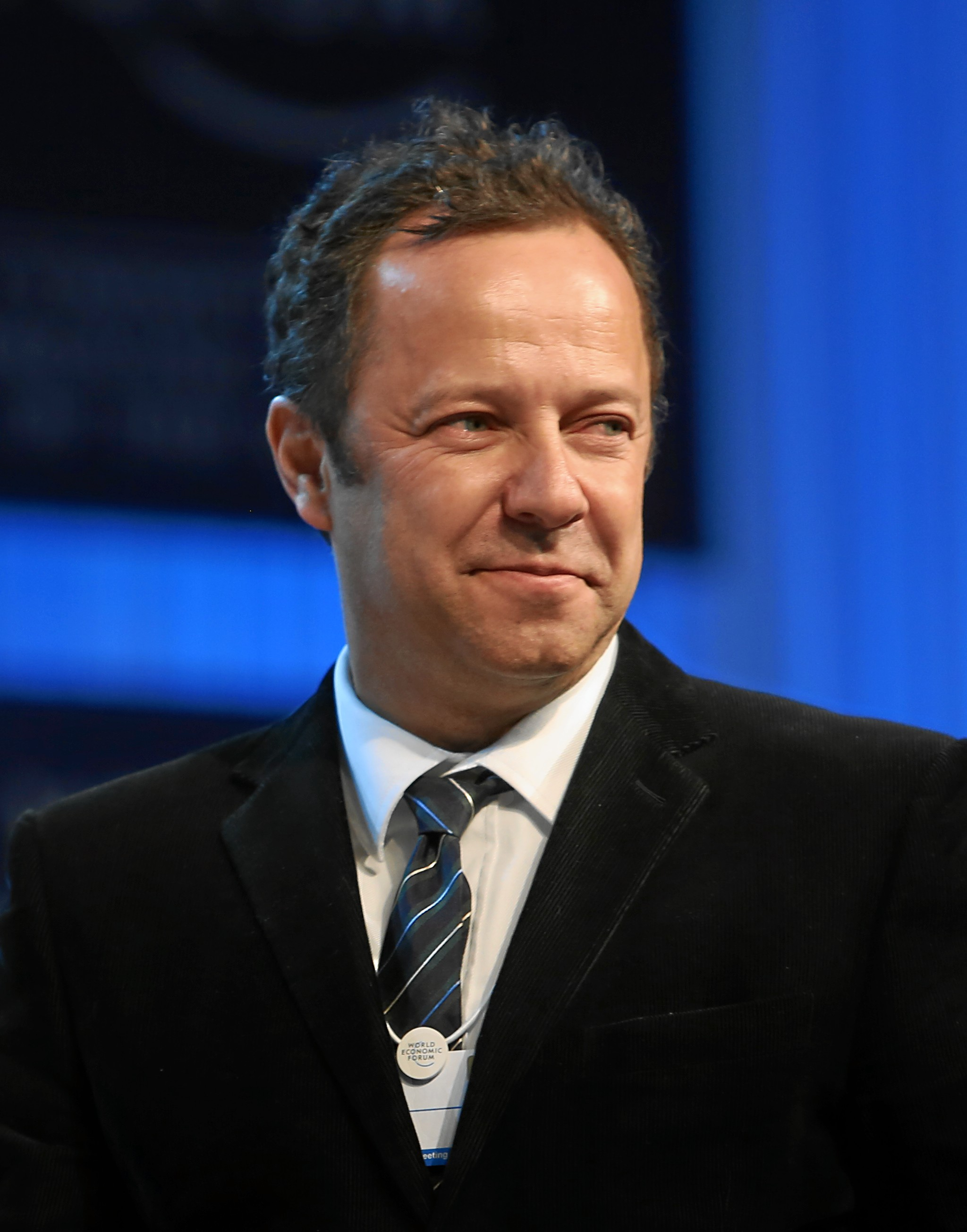 DAVOS/SWITZERLAND, 22JAN13 - Hilde Schwab and award winner Vik Muniz, Artist, during the Crystal Award Ceremony Exploring Arts in Society' at the Annual Meeting 2013 of the World Economic Forum in Davos, Switzerland, January 22, 2013. Copyright by World Economic Forum Monika Flueckiger